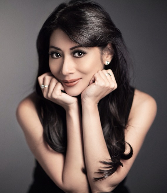 Laksmi Pamuntjak